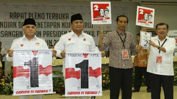 Presidential candidates Prabowo Subianto/Hatta Rajasa and Joko Widodo/Jusuf Kalla in the ballot number lottery for the 2014 presidential election.